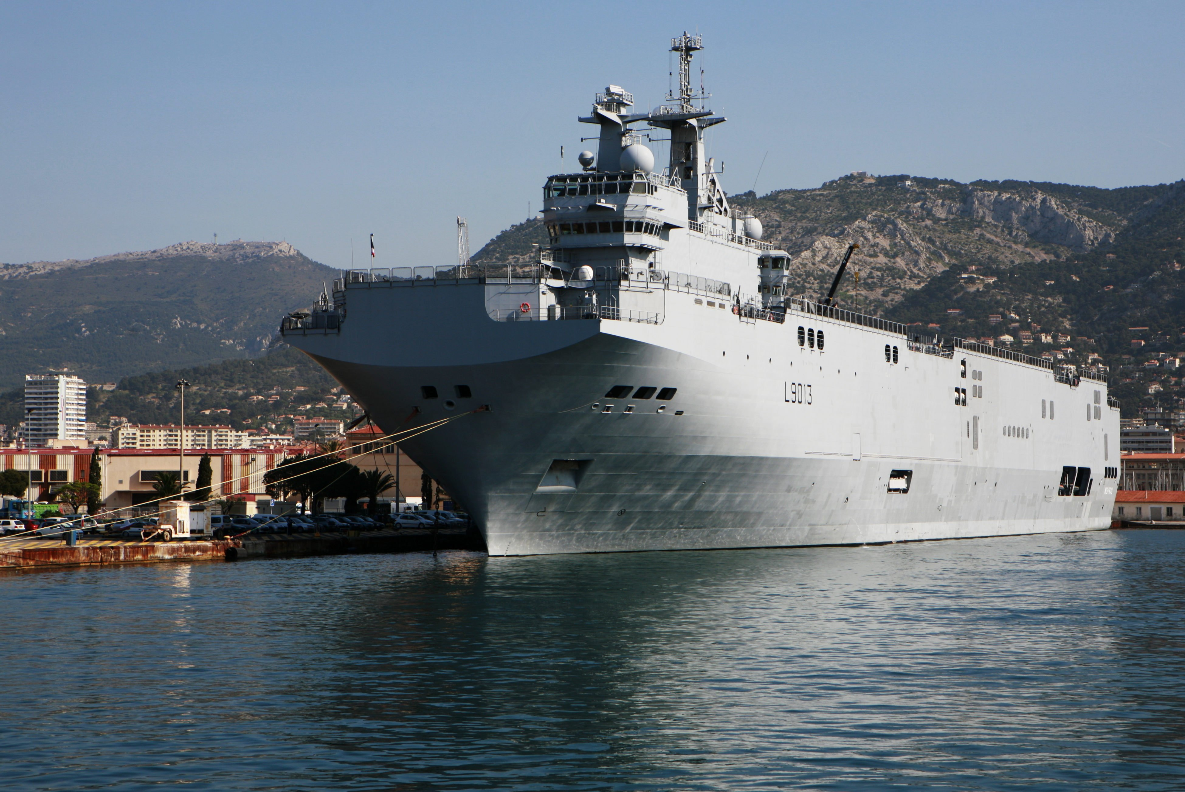 French Command and Projection Ship Mistral (L 9013). Mistral is currently moored at the entrance of Toulon harbour, where she is preparing to host President Sarkozy during the celebrations of the 8th of May 2009.